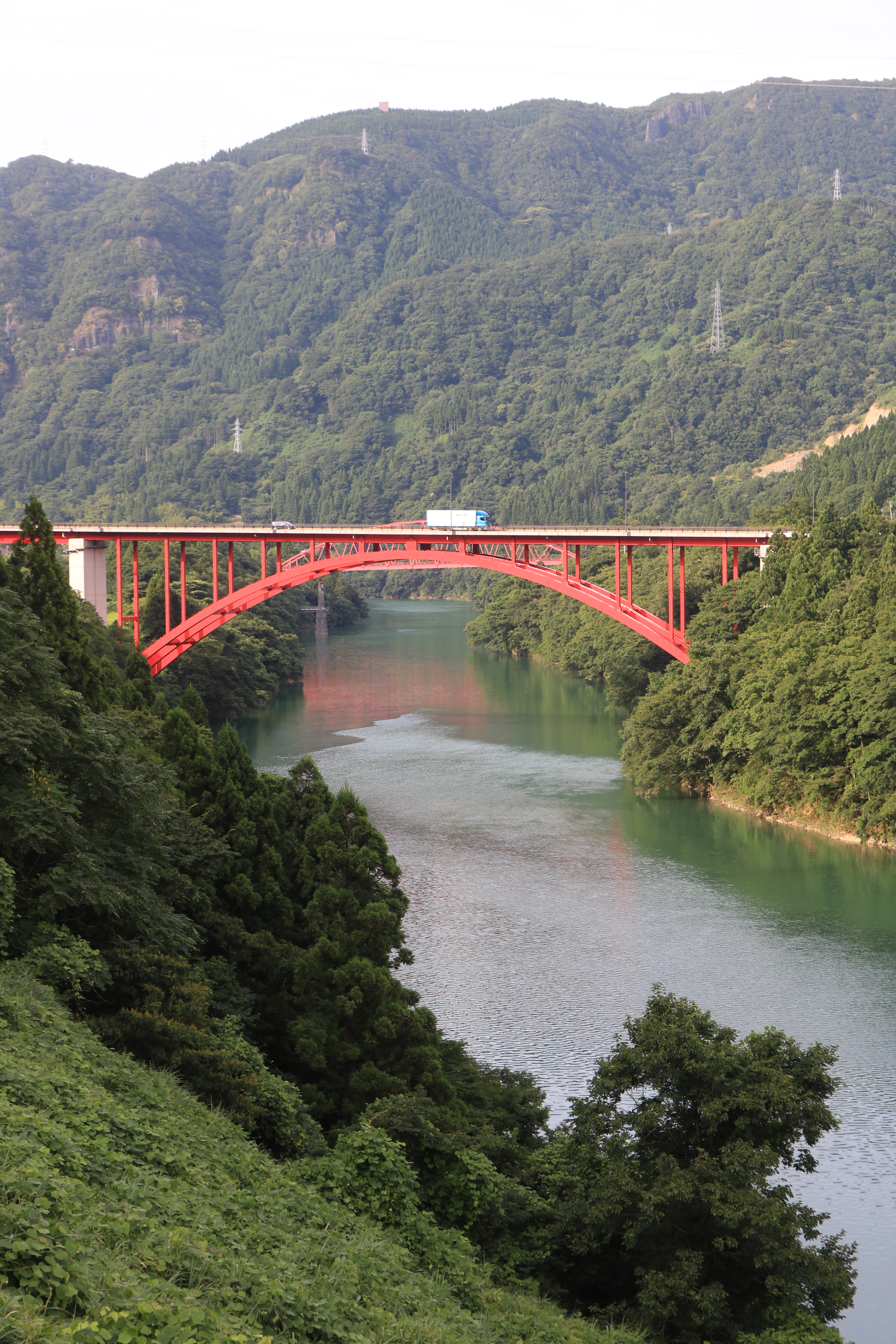 Nunoshirinirehara Bridge of Route 41 over Jinzu River in Toyama City, Toyama Prefecture, Japan.